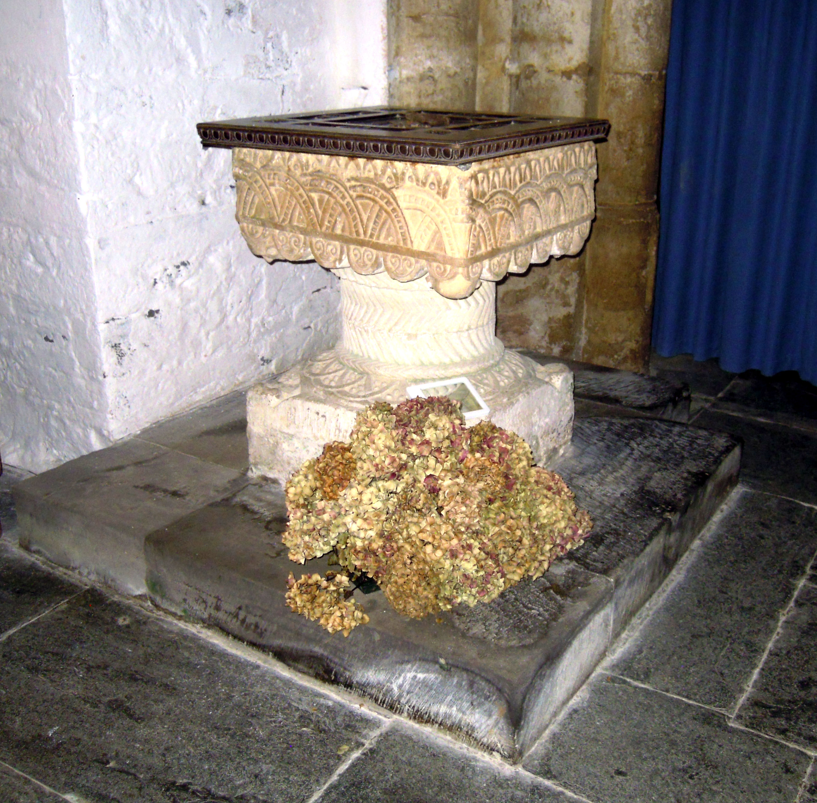 The Norman baptismal font at St Nectan's Church, Hartland in Devon